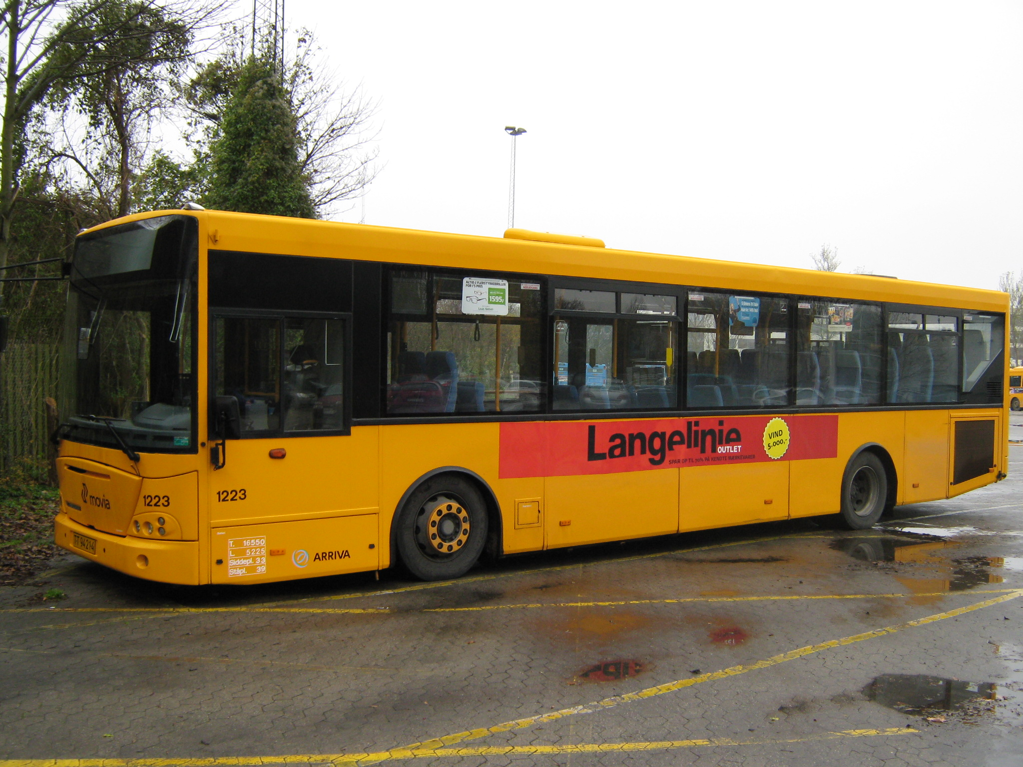 Arriva Jonckheere bus, internal number 1223 in Gladsaxe garage.